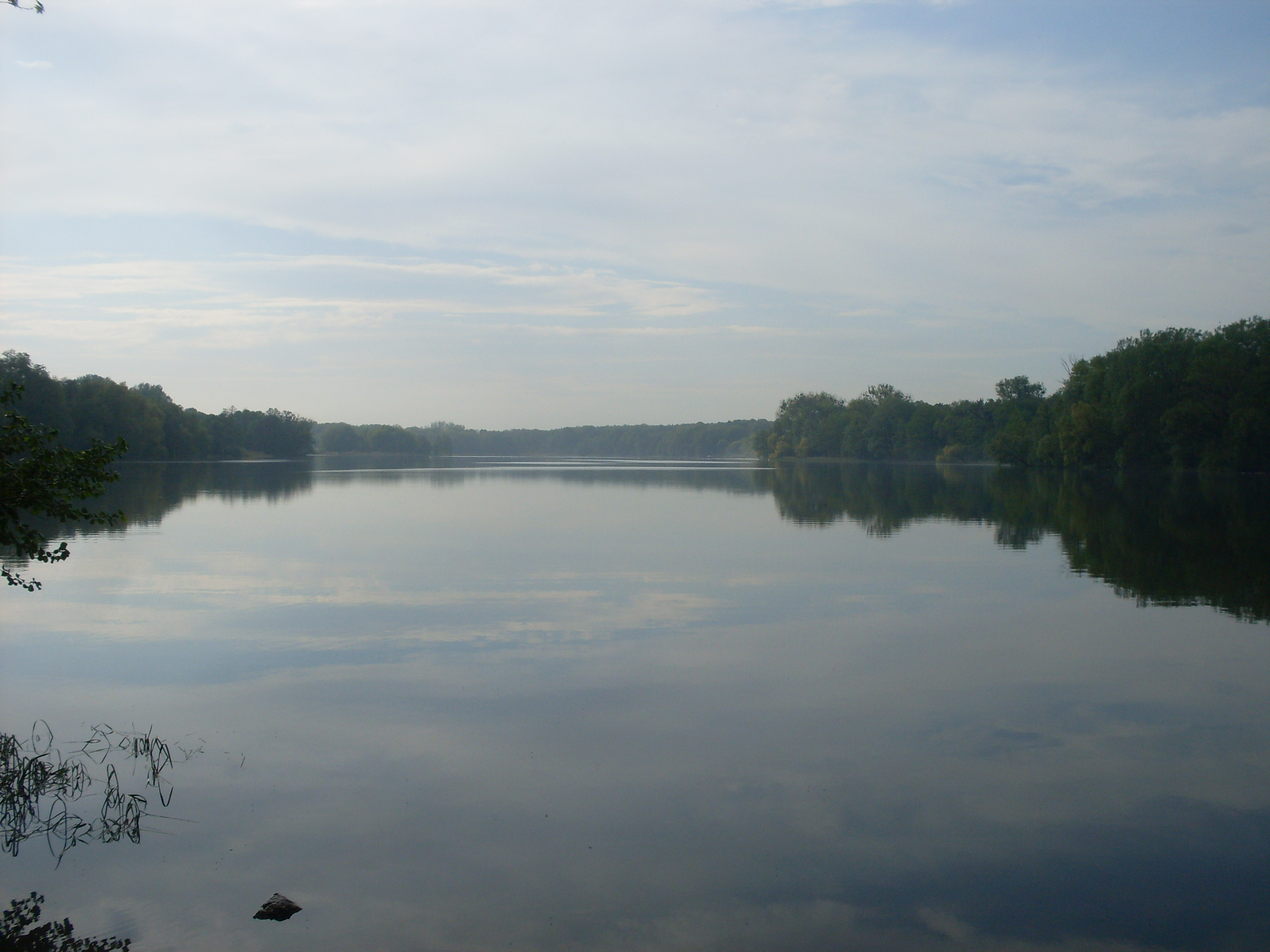 View of the Rusałka Lake from the east coast.